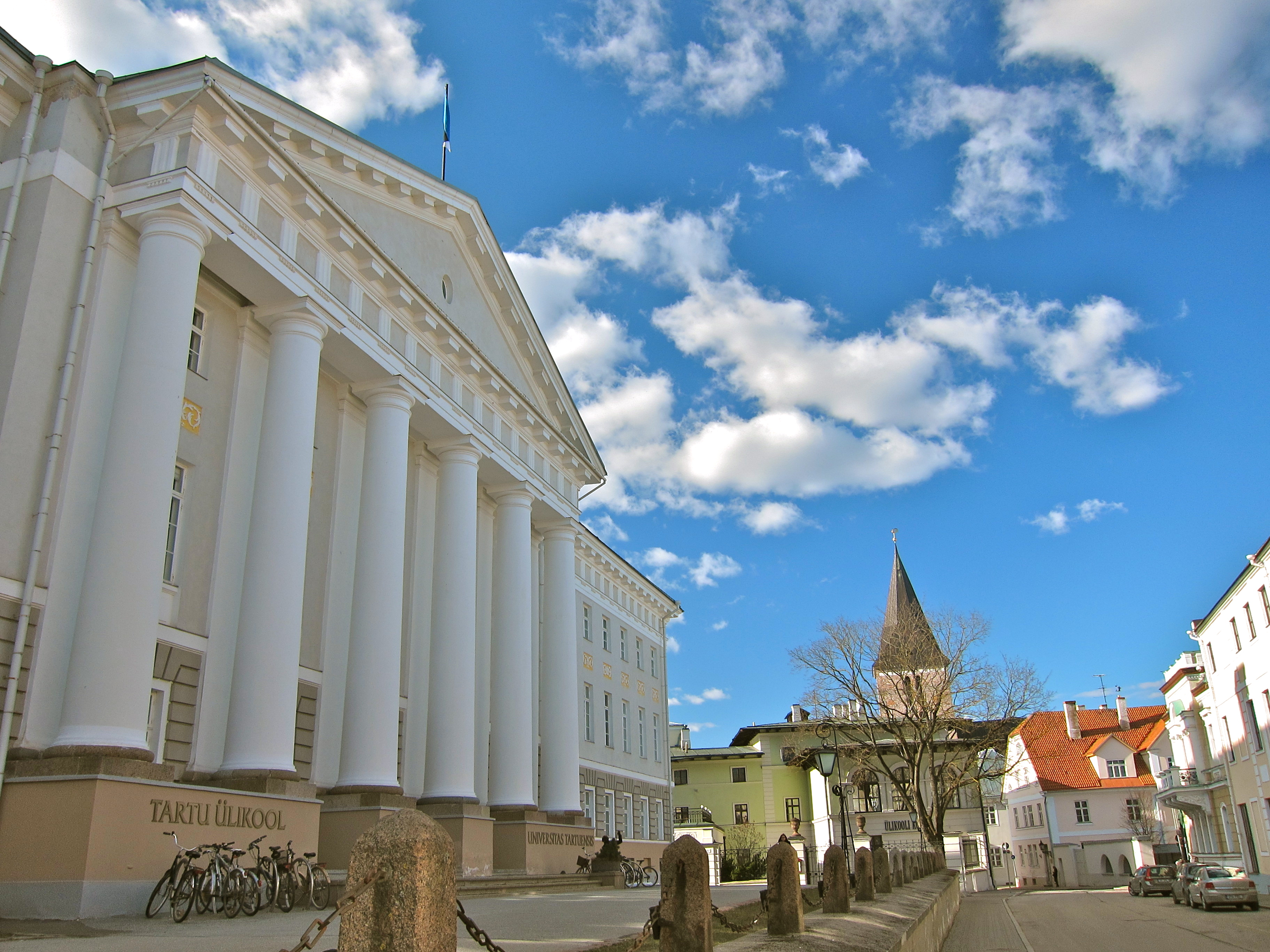 The main building of the University of Tartu in Estonia, April 2012